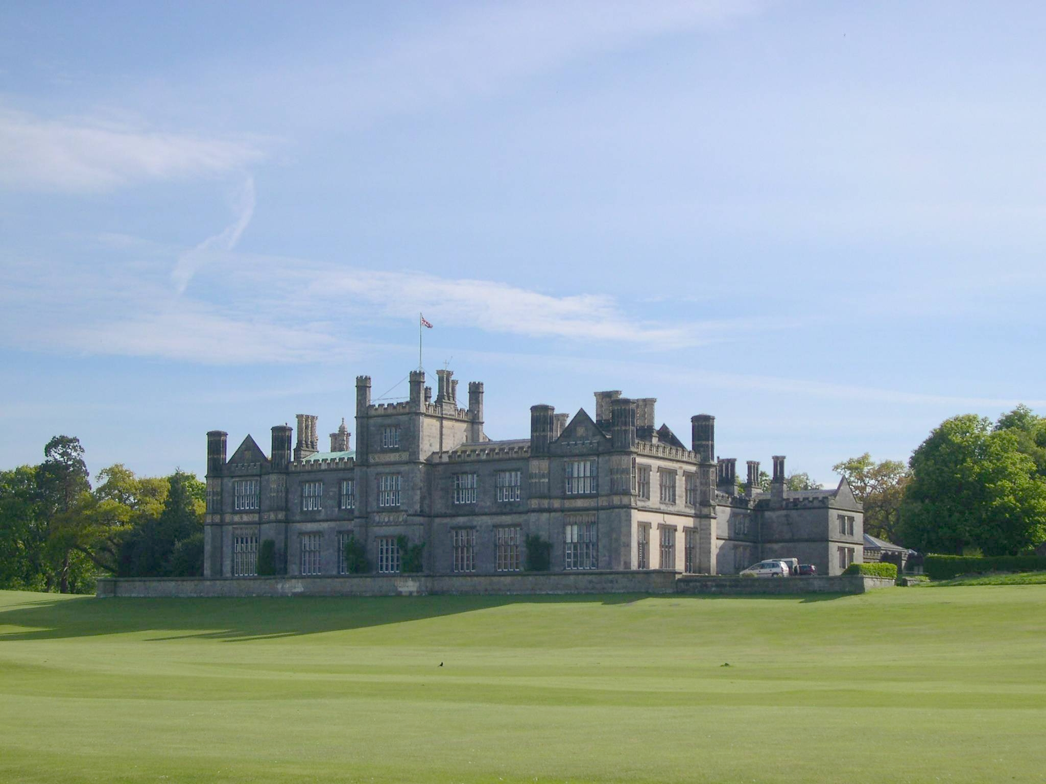 Dalmeny House, near Edinburgh, Scotland.